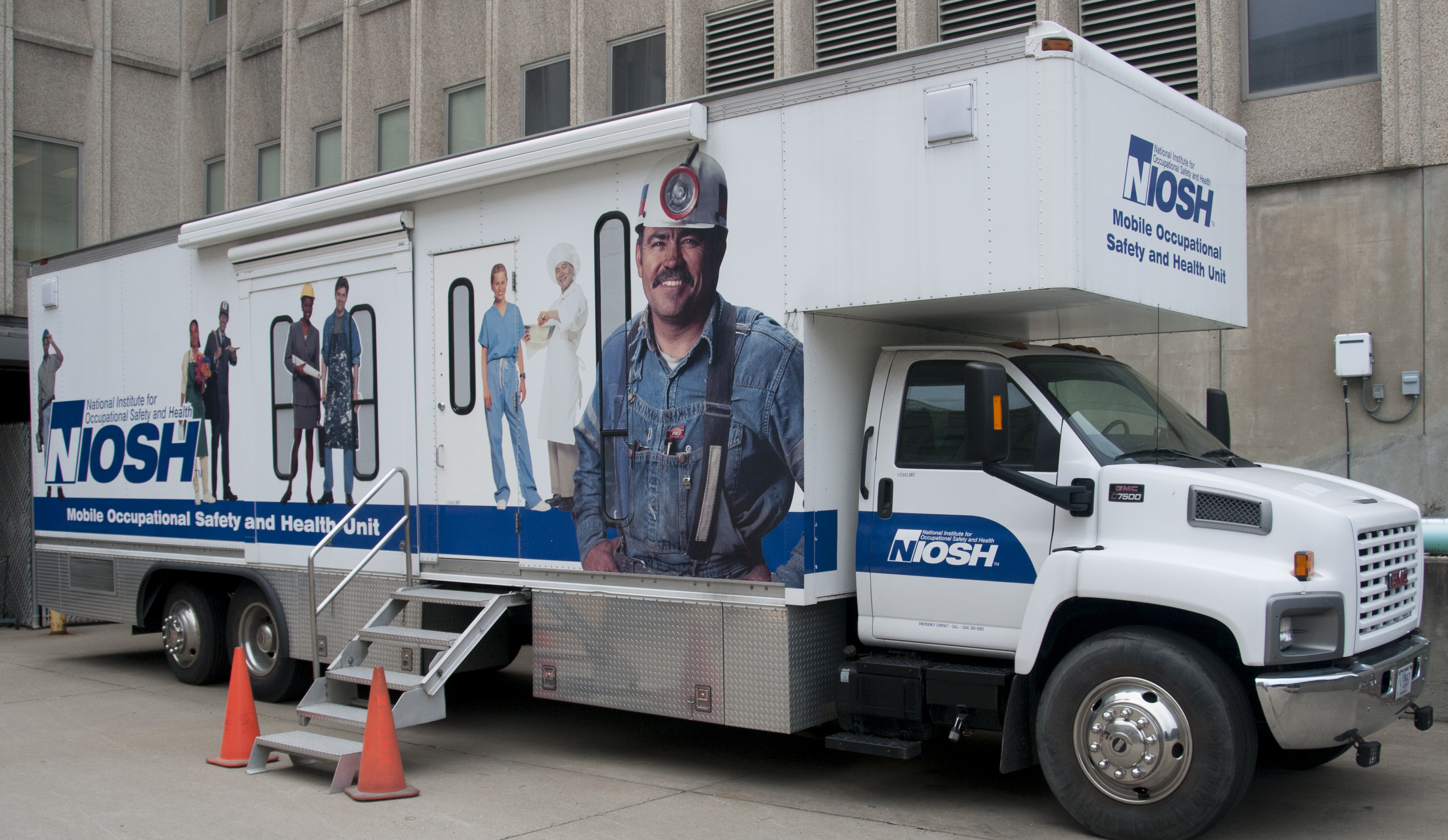 NIOSH uses this mobile unit to provide health screenings for surface coal miners under its Enhanced Coal Workers’ Health Surveillance Program.